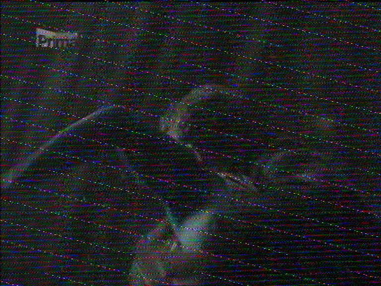 Electromagnetical interference in video signal - screenshot from analog television broadcast, "Superman Returns" Notice the diagonal stripes of dots, a marker of a fixed frequency interfering with the broadcast; in the video they are slowly traveling upwards. The screenshot was done on fbtv on a Bt878-based video capture card.